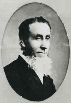 Pastor William Finlayson